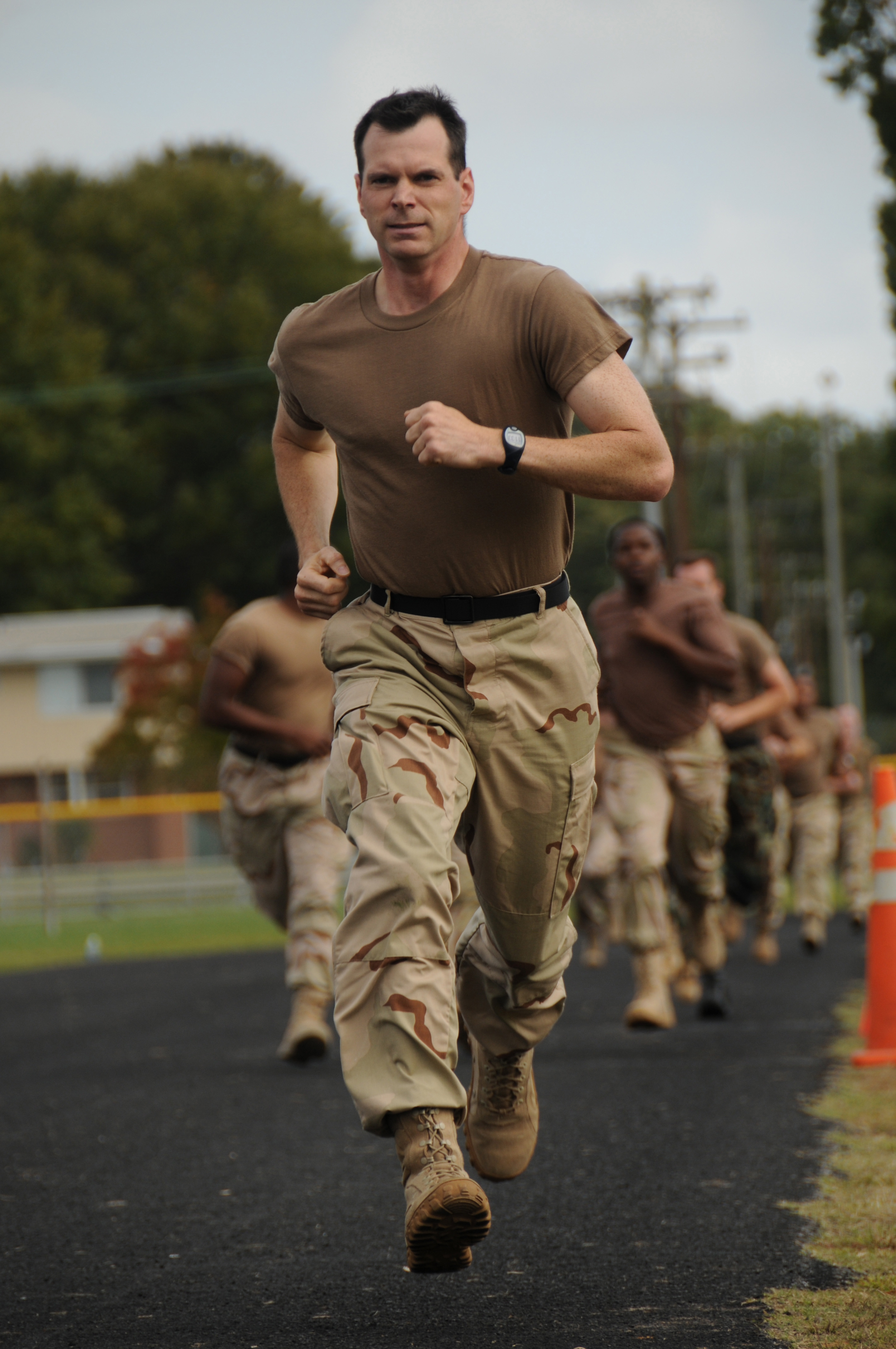 FT. EUSTIS, Va. (Oct. 24, 2009) Electronics Technician 2nd Class Brett Mclean, assigned to Maritime Expeditionary Command and Control (MAREXCMDCON) Division 24, sprints during the run portion of the Marine Corp. Combat Fitness Test. MAREXCMDCON Division 24 is a mobilized reserve unit preparing to deploy as a ready and accessible force capable of providing surface surveillance capabilities, law enforcement operations and intelligence collection in areas throughout the world. (U.S. Navy photo by Mass Communication Specialist Maddelin Angebrand/Released)